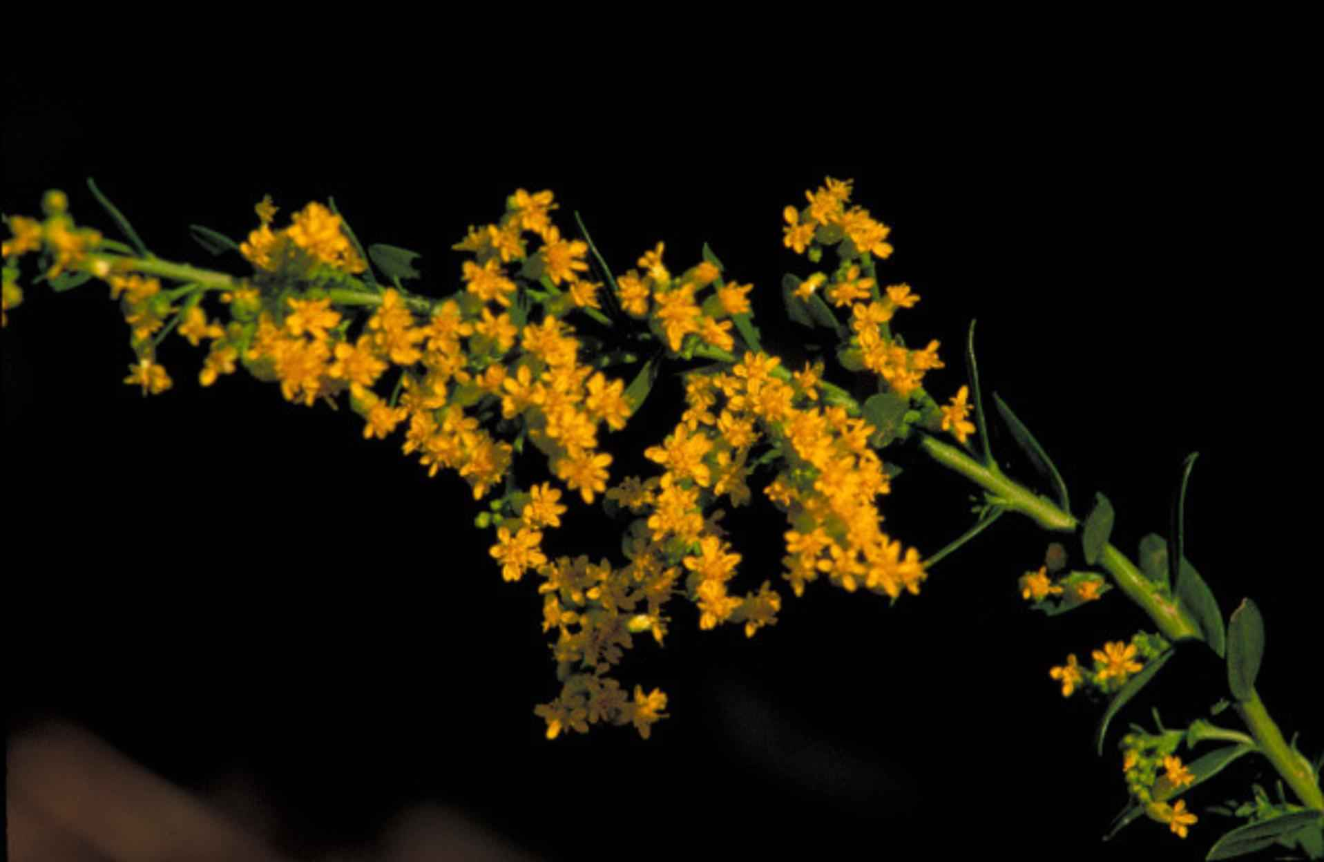 Image title: Solidago shortii flower Image from Public domain images website